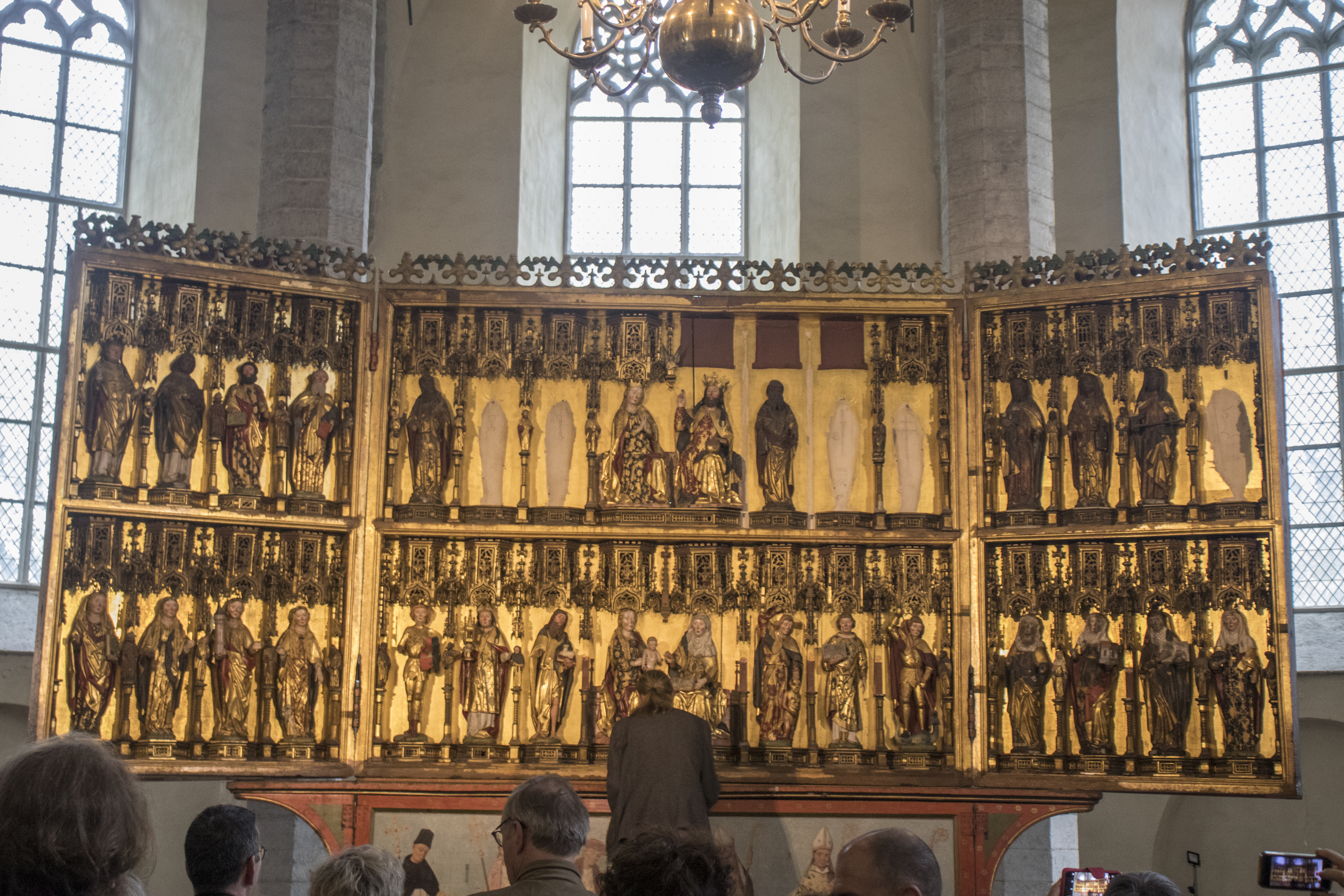 Altarpiece (open) in Niguliste Church (Saint Nicholas), Tallinn, Estonia, 2019